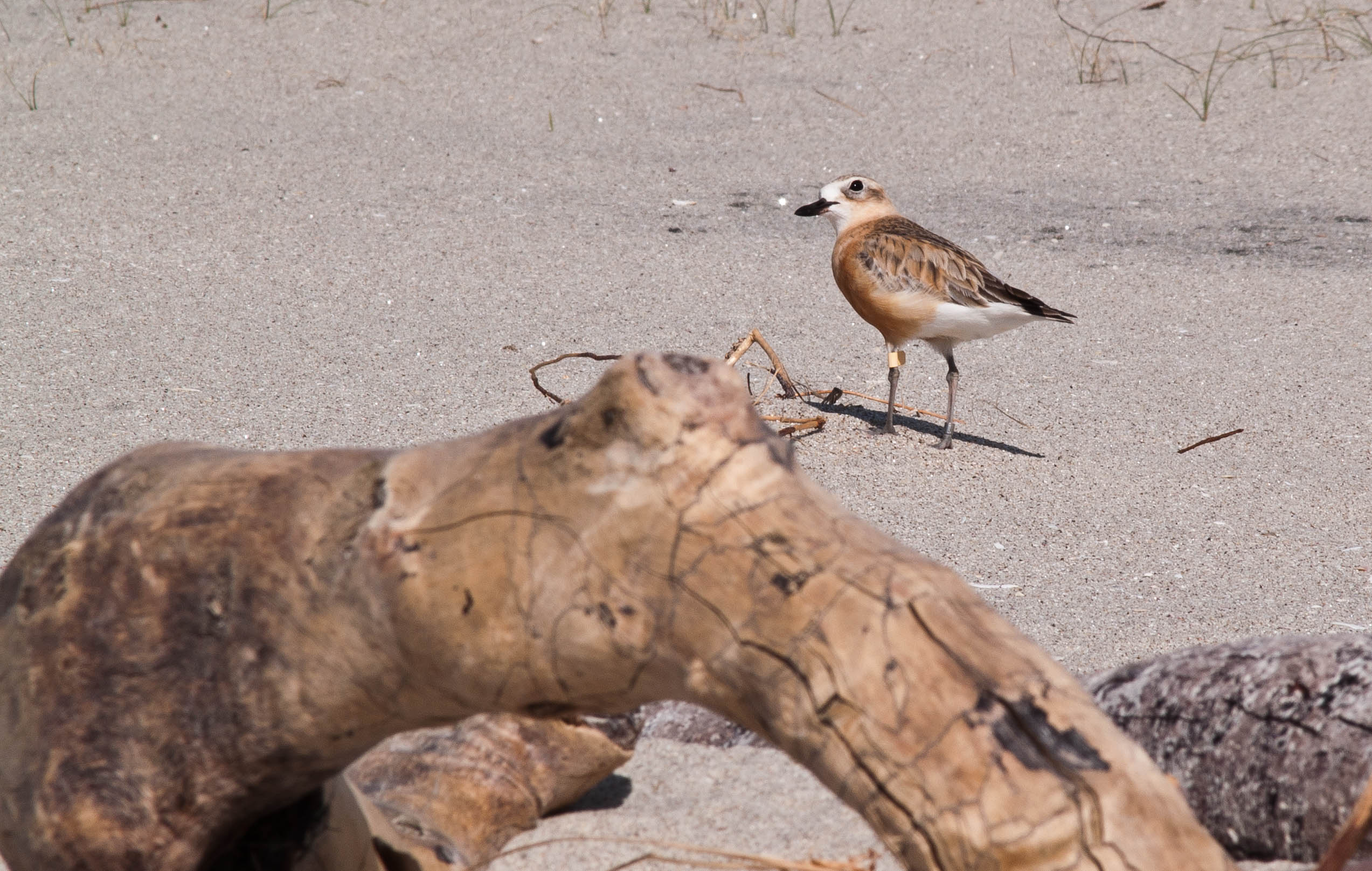 New Zealand Dotterel, endangered shore bird, subject of Dept of Conservation breeding programme on Tauranga, Matakana Island. These and other images available